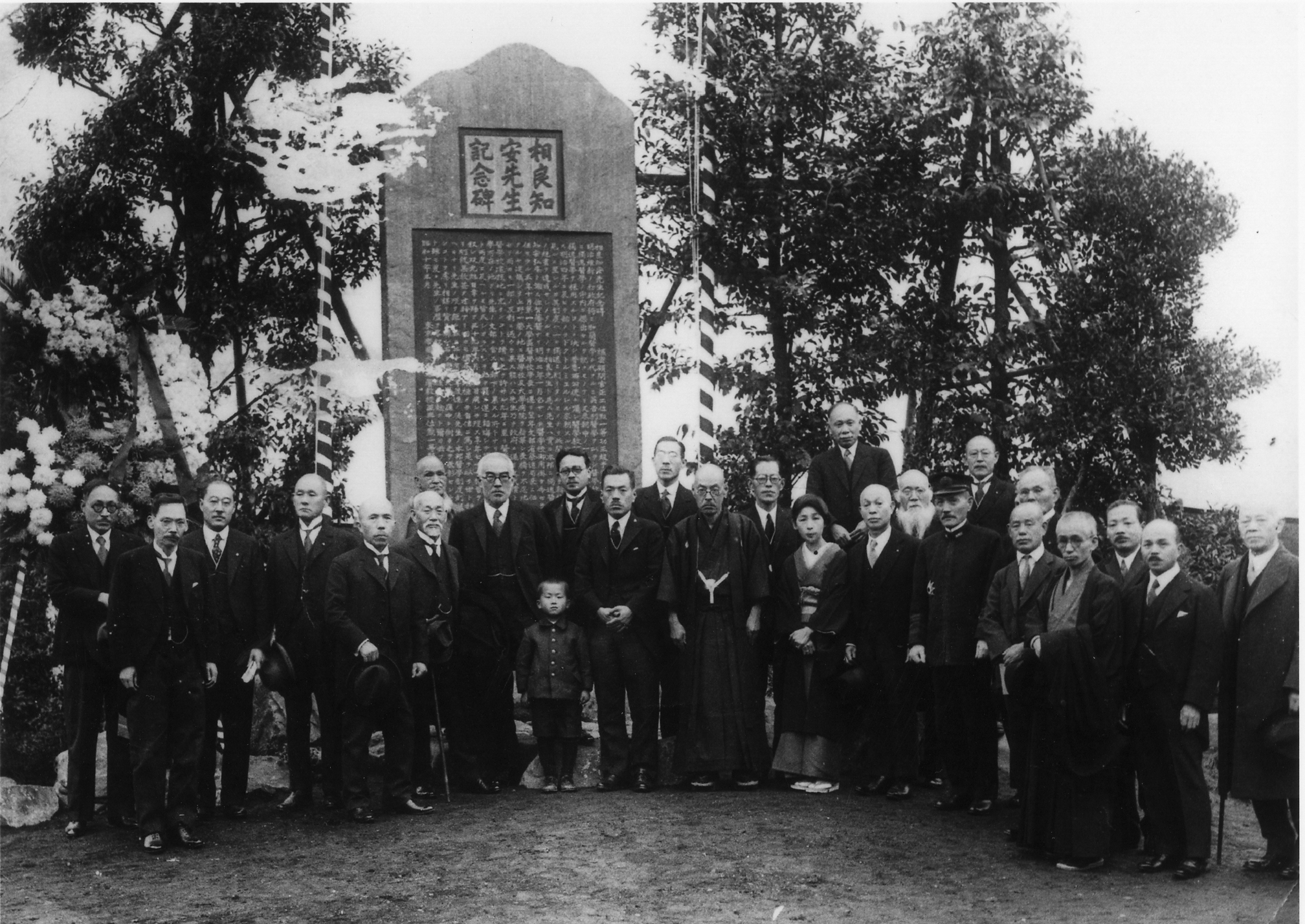 Inauguration ceremony for the Sagara Chian Memorial Monument in the Faculty of Medicine, Tokyo University (Japan)